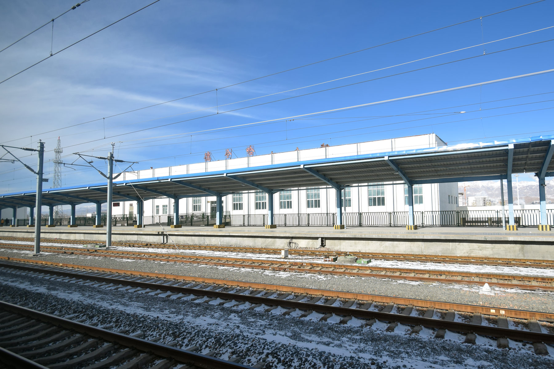 Platform 1 of Delingha Railway Station